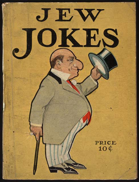 Little Giant. Jew Jokes. Cleveland: Arthur Westbrook Company, 1908. Dime Novel Collection